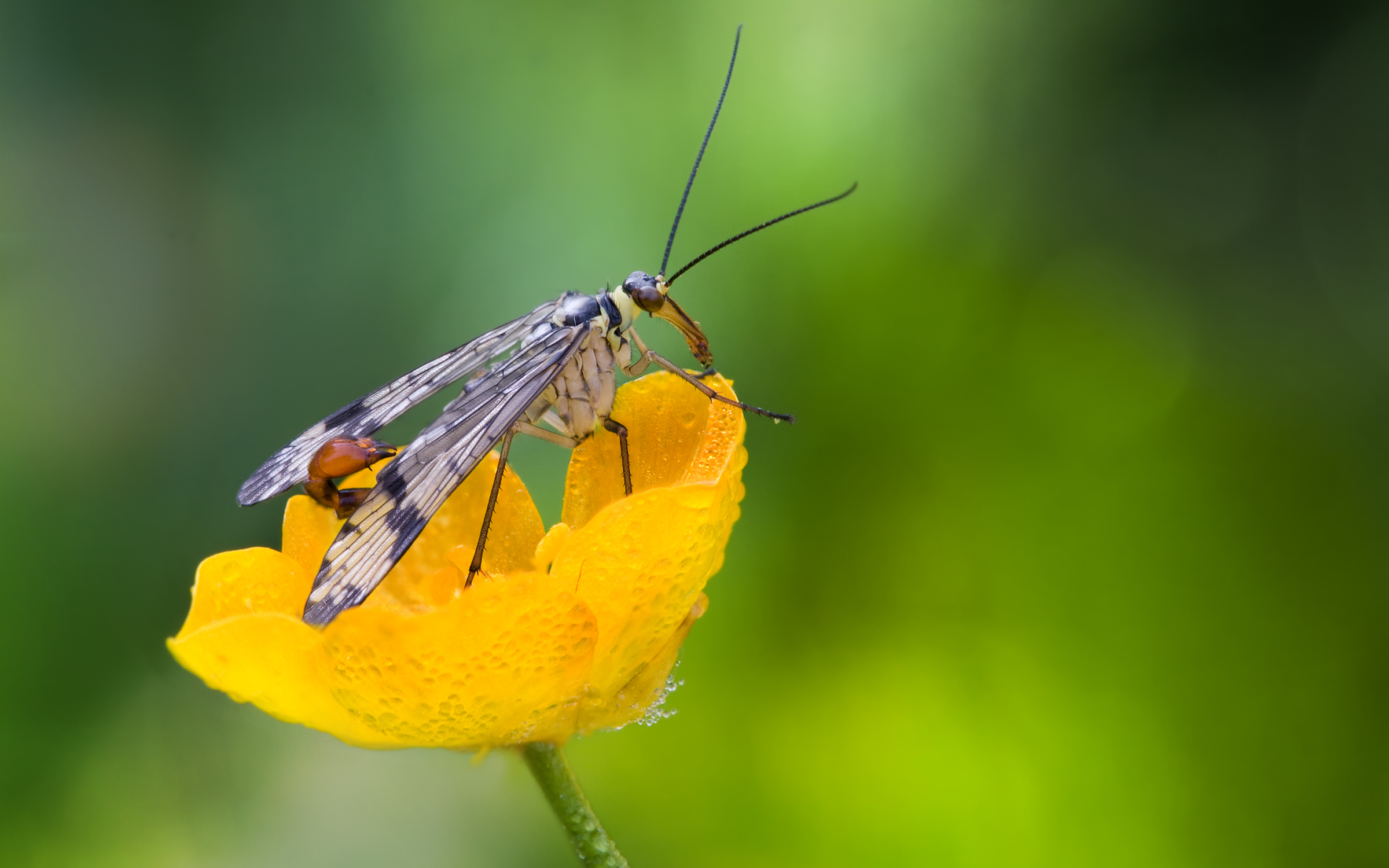 Scorpion Fly (Panorpa communis) Panorpa is a genus of scorpionflies that is widely dispersed in the Northern hemisphere.